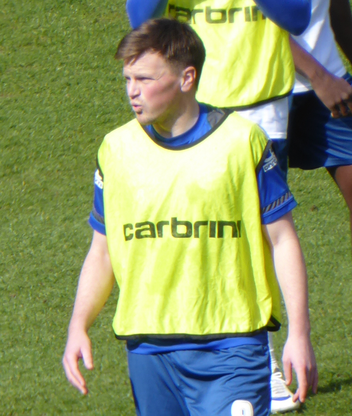 Stephen Gleeson of Birmingham City Football Club warming up before a match in April 2016